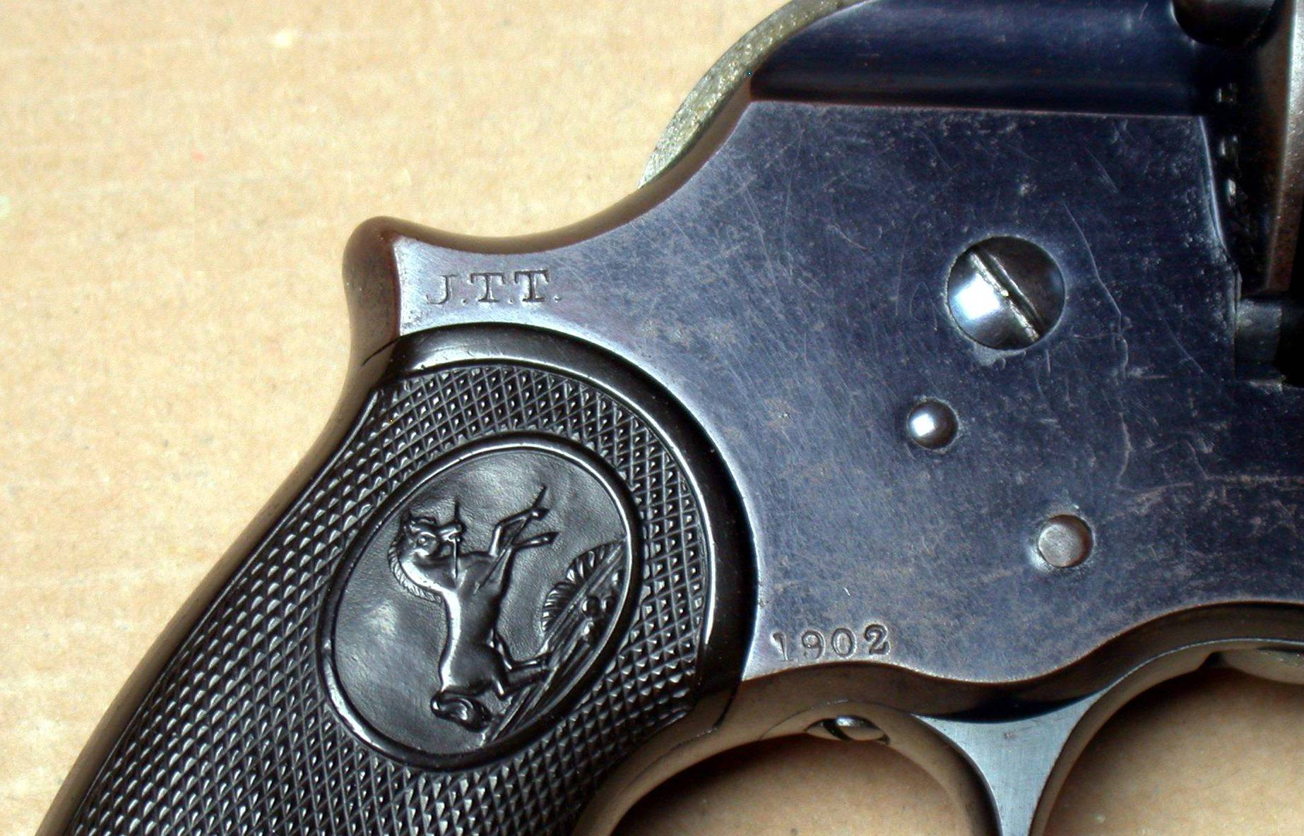 Colt 1878, Philippine Model 02